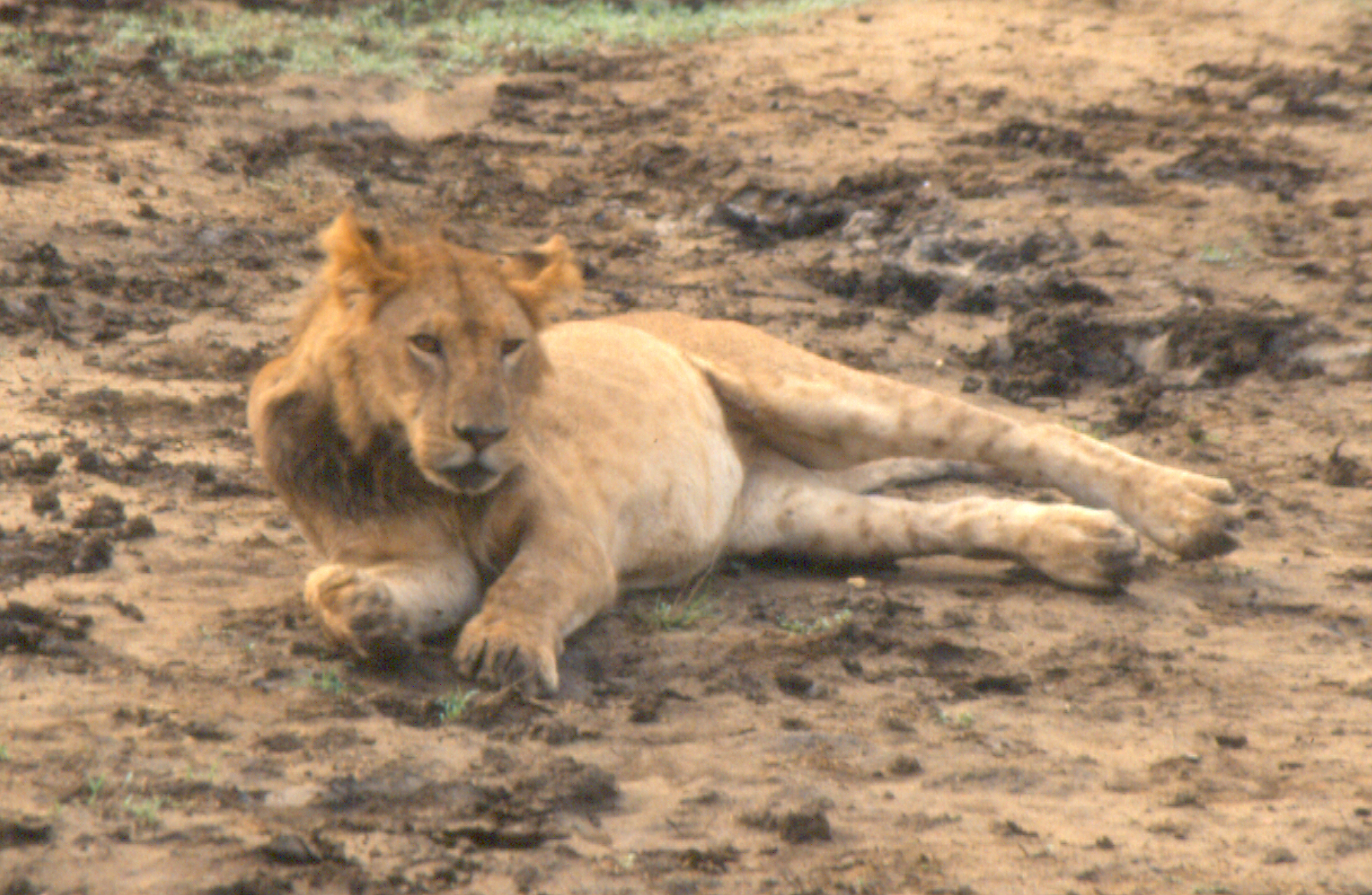 Lionness resting in the Virunga National Park, near the Rwindi Station. The Virunga National Park (formerly Albert National Park) lies from the Virunga Mountains, to the Rwenzori Mountains, in the eastern Democratic Republic of Congo, bordering Volcanoes National Park in Rwanda and Rwenzori Mountains National Park in Uganda. The lion (Panthera leo) is one of four big cats in the genus Panthera, and a member of the family Felidae. They typically inhabit savanna and grassland, although they may take to bush and forest. Lions are unusually social compared to other cats. The lion is an apex and keystone predator, although they will scavenge if the opportunity arises. Digitized slide.